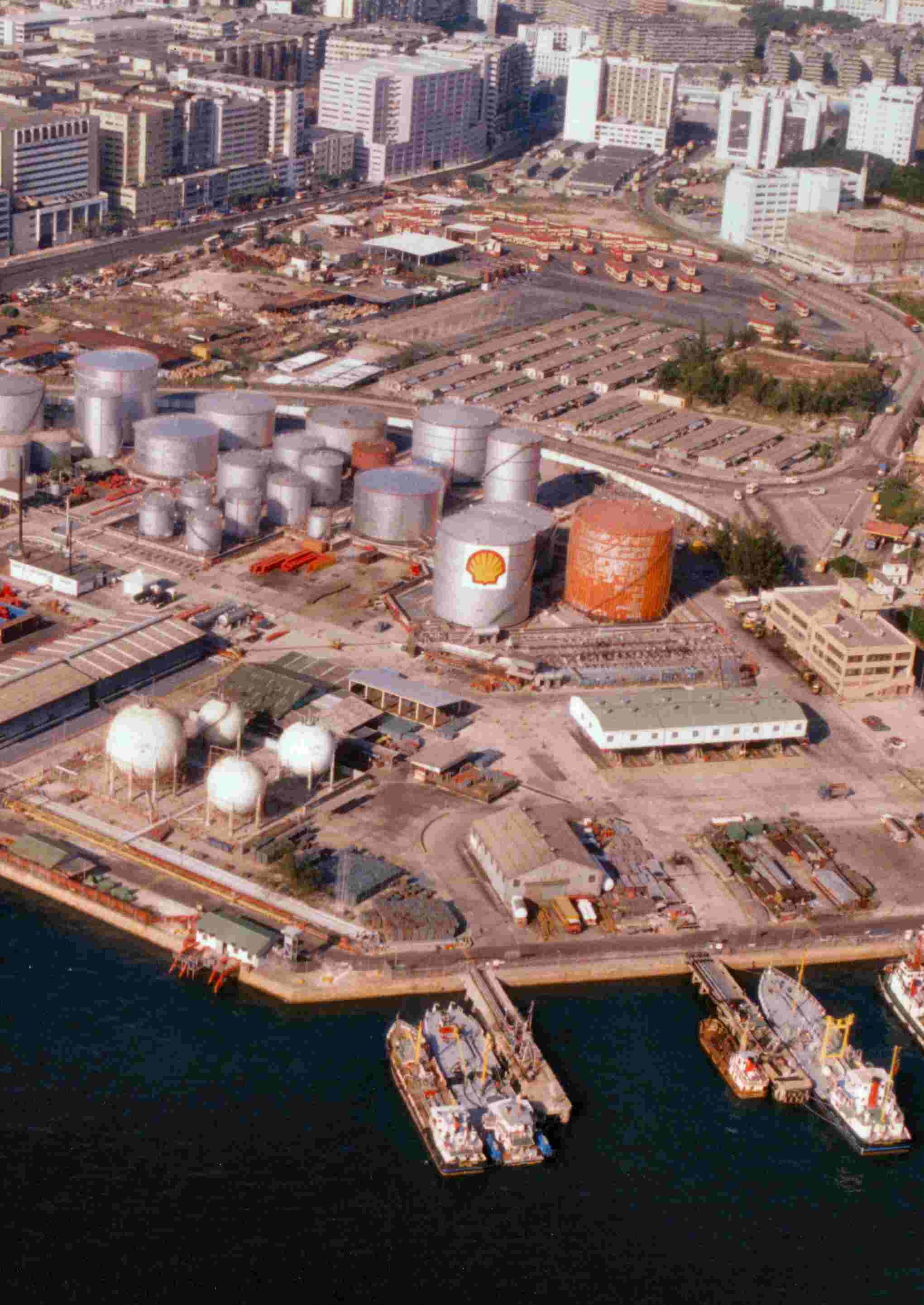 Photo by Paddy Briggs